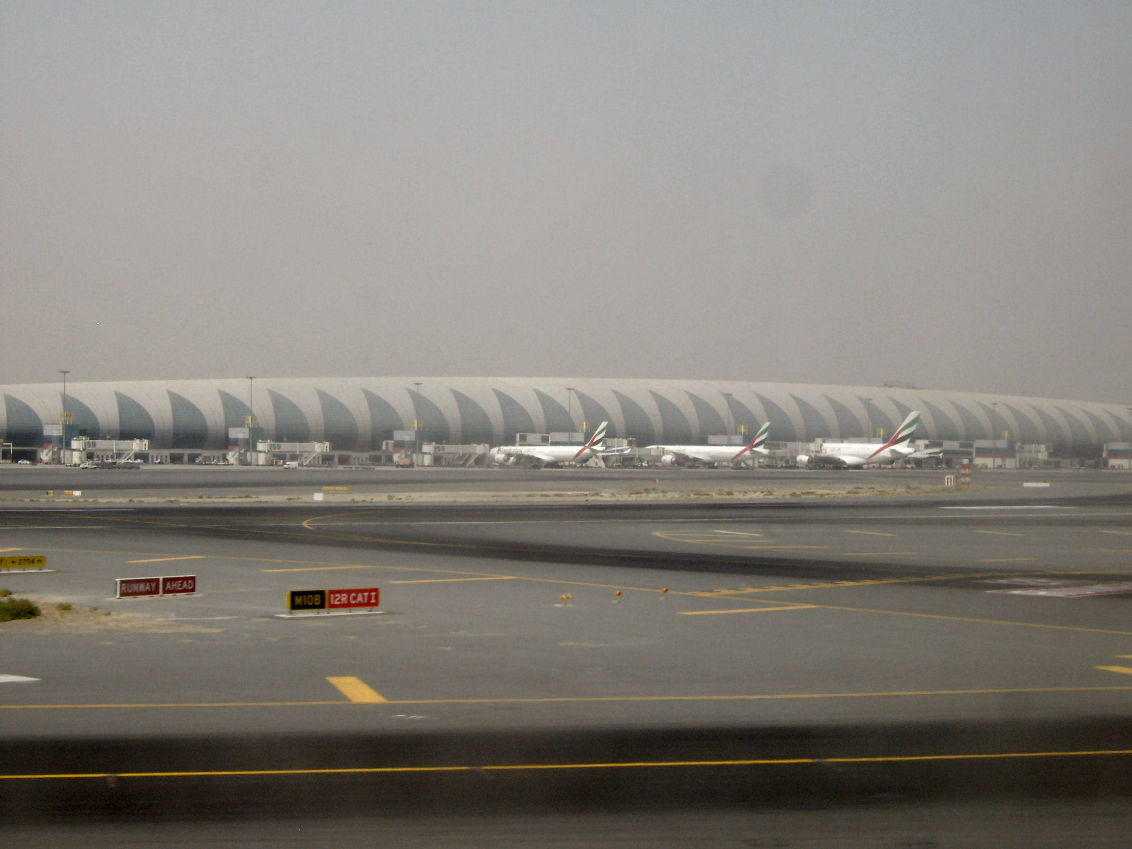 Terminal 3 dxb